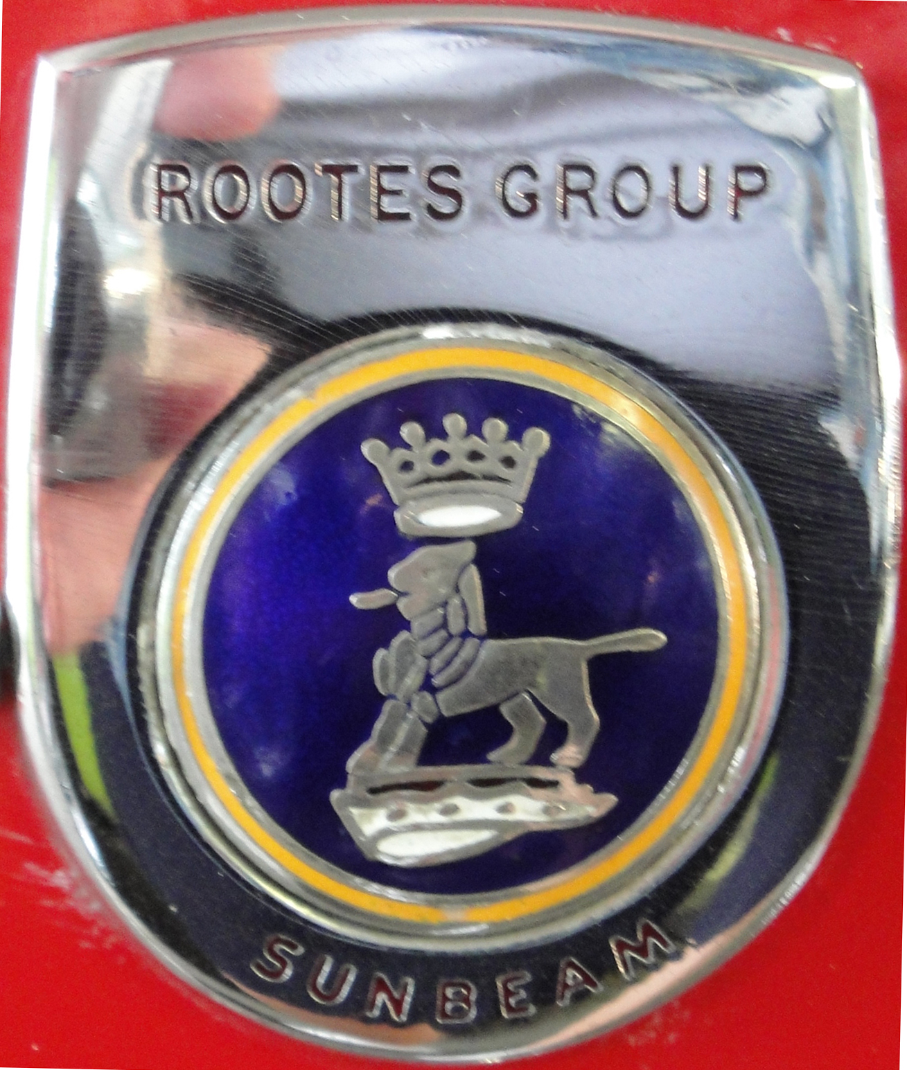 Badge on a 1966 Sunbeam Tiger W.P.C. Restorers Club 10,000 Lakes Region Car Show June 12, 2011 Wagner's Drive in